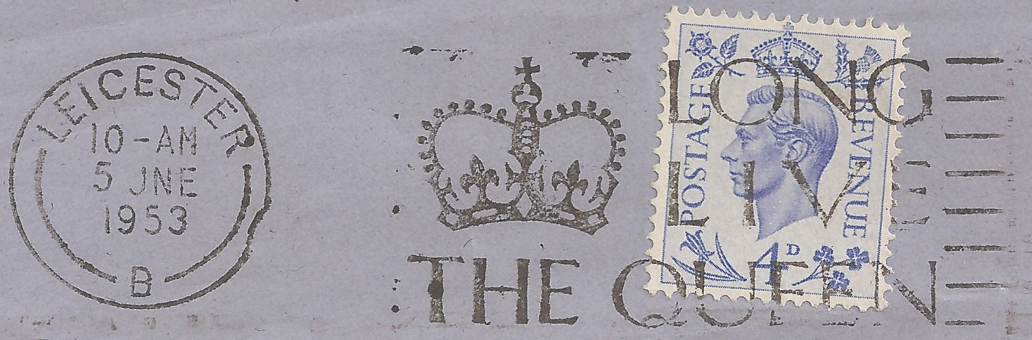 On a British cover, posted on 5 June 1953 in Leicester, it bears a 4 pence (4D) stamp figuring late King George VI, issued in 1950 on a design first issued in 1937. It was cancelled with a slogan cancellation proclaming "Long live to the Queen" - Elizabeth II - crowned on the precedent 2 June.